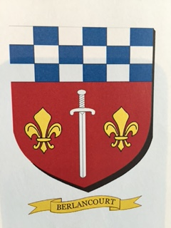 Blason Berlancourt (Aisne). Blason Berlancourt tel qu’adopté par le conseil municipal le 16 octobre 2015, avec les armes de la famille d’Ailly, l’épée de saint Martin, saint patron de Berlancourt, et les fleurs de lys de l’abbaye de Saint-Martin de Laon. Le blason est conçu et réalisé par Jean-François Binon et donné libre de droit (domaine public) à la commune de Berlancourt.